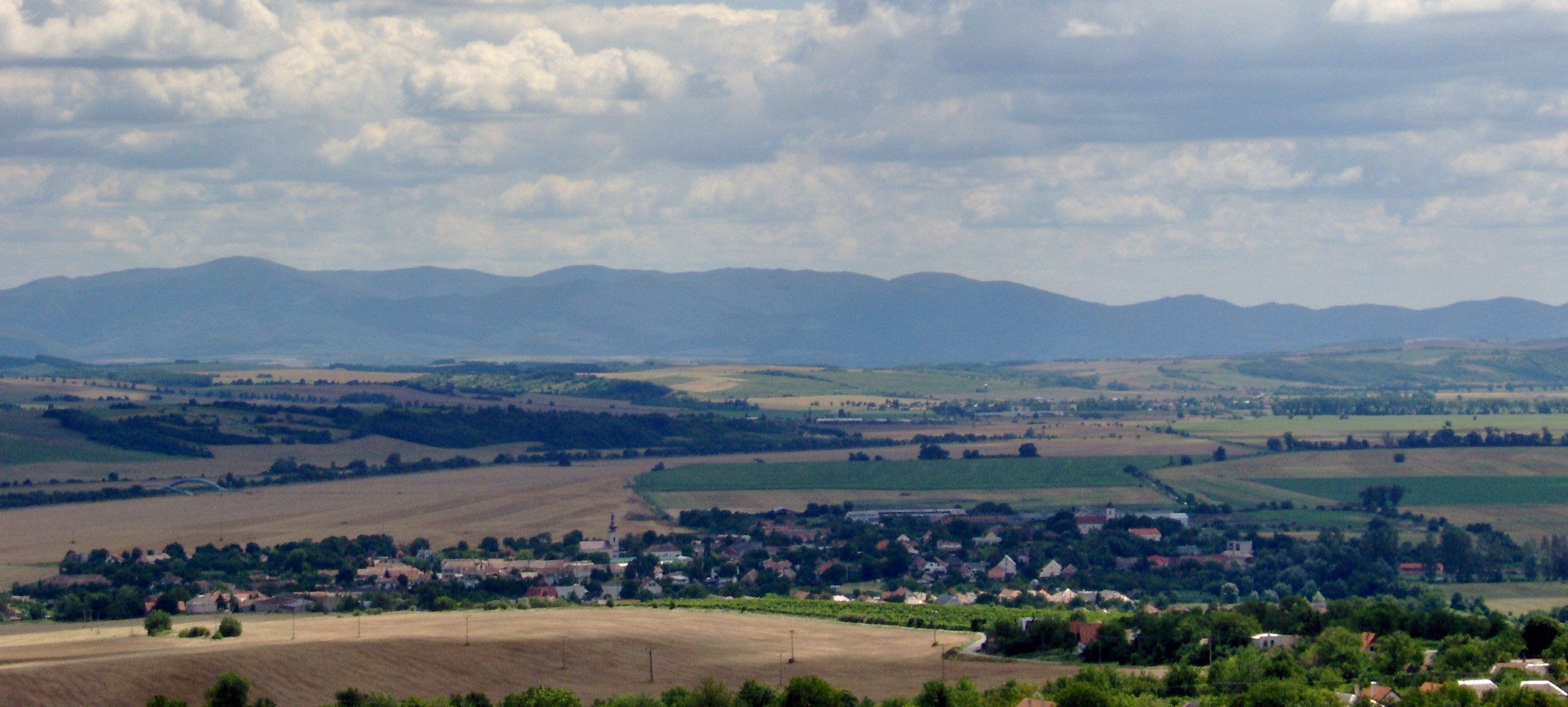 Mýtne Ludany, in Levice District in the Nitra Region of Slovakia and Börzsöny